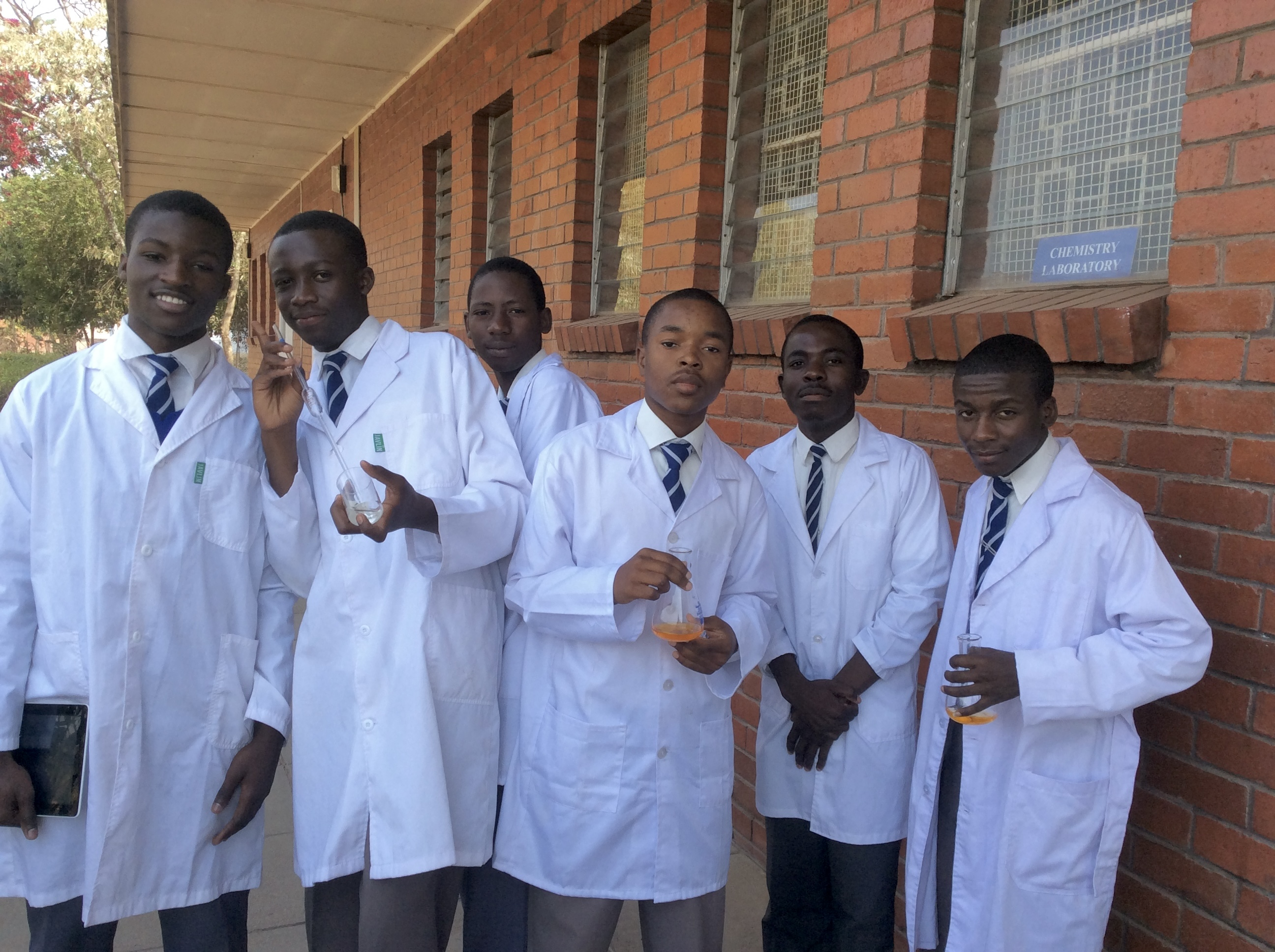 students posing for photo after chemistry practical